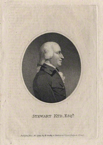 Portrait of Stewart Kyd (died 1811), Scottish politician and legal writer.